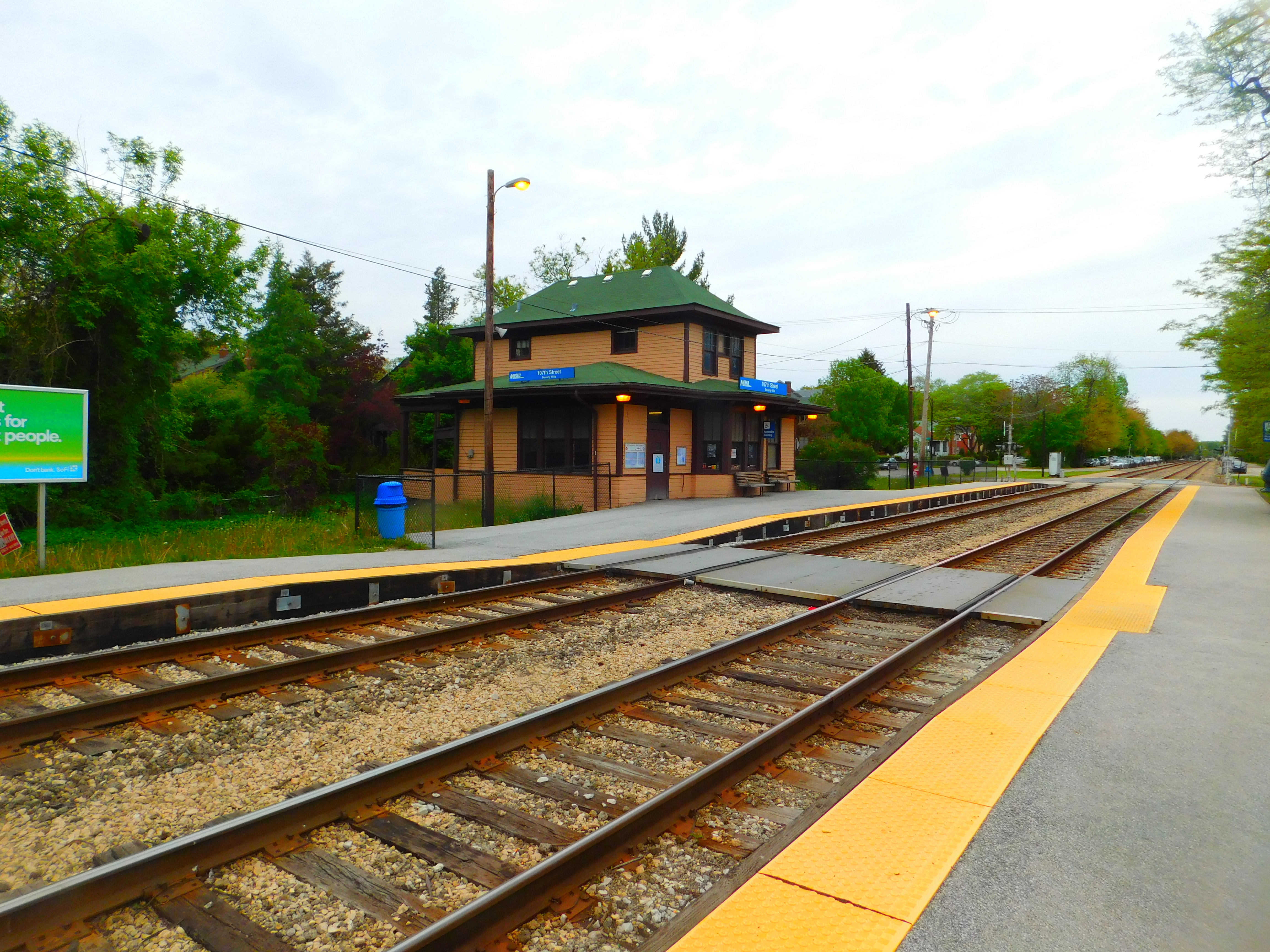 The 107th Street–Beverly Hills station for the Metra Rock Island District in May 2016.